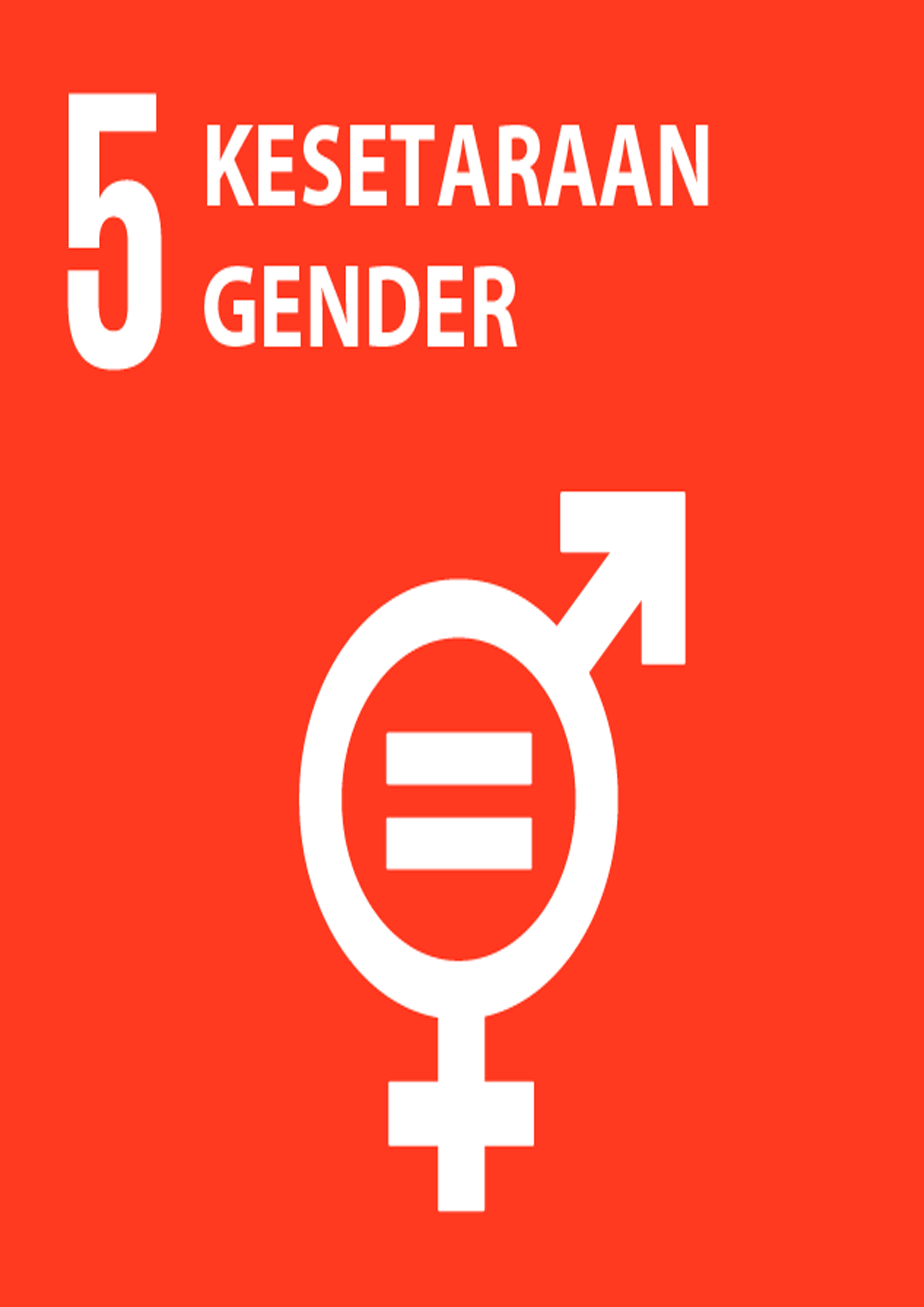 SDG Goal 5 Gender Equality